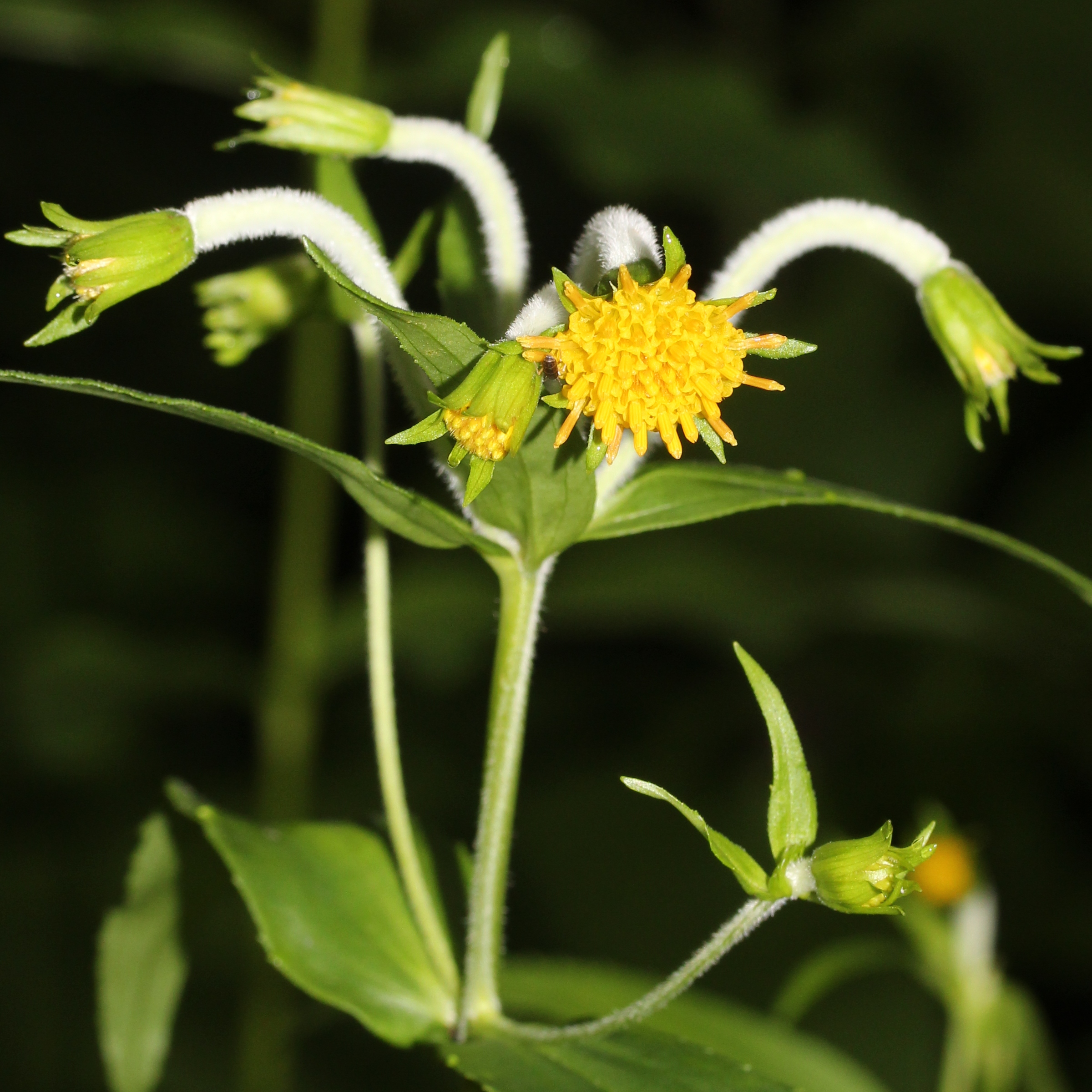 Arnica mallotopus in Mount Shirouma, Hakuba, Nagano prefecture, Japan